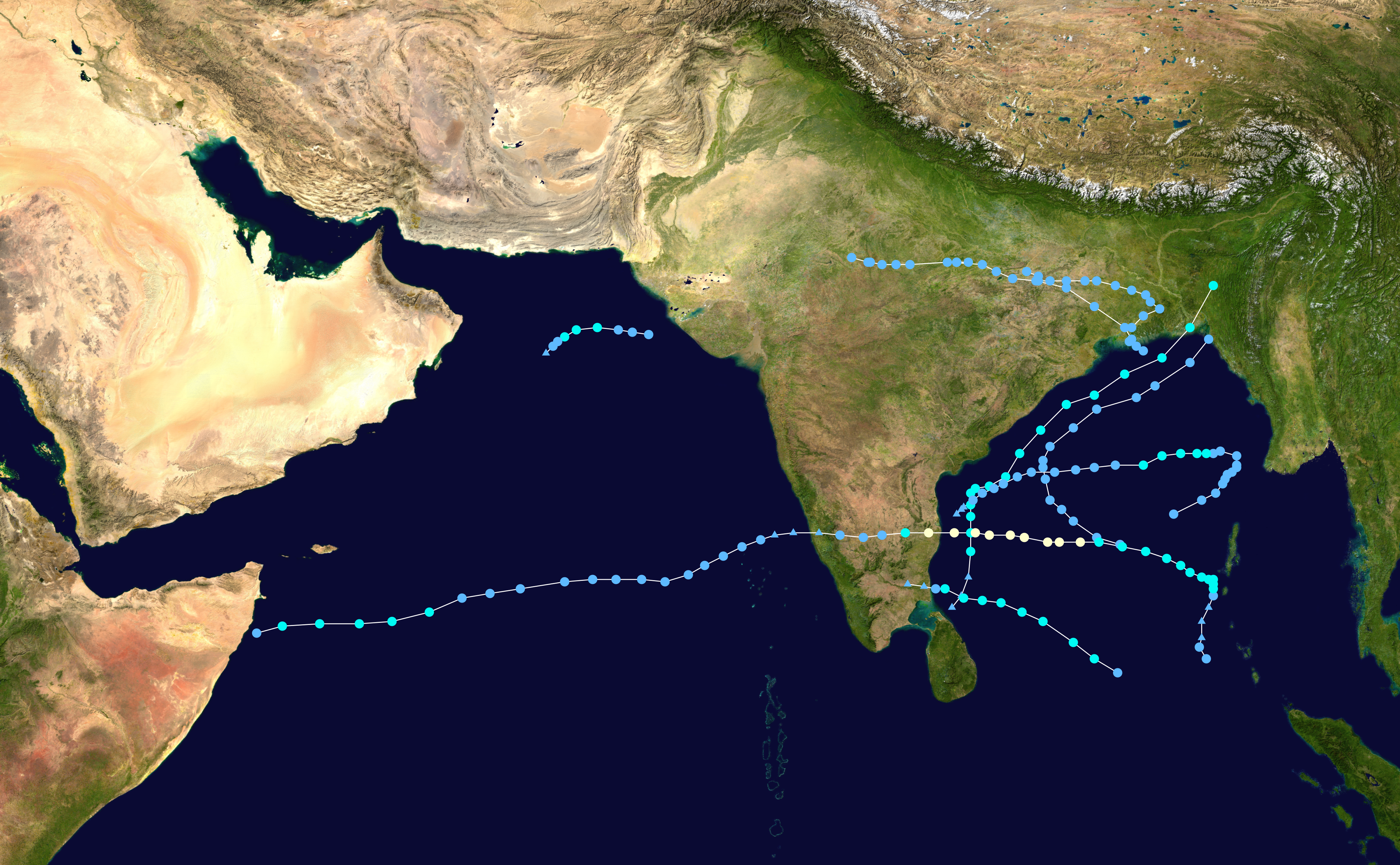 This map shows the tracks of all tropical cyclones in the 2016 North Indian Ocean cyclone season. The points show the location of each storm at 6-hour intervals. The colour represents the storm's maximum sustained wind speeds as classified in the Saffir-Simpson Hurricane Scale (see below), and the shape of the data points represent the type of the storm. Map generation parameters: --res 4000 --extra 1 --negx 0 --dots 0.2 --lines 0.04 --xmin 40 --xmax 100 --ymin 0 --ymax 35 Saffir–Simpson scale Tropical depression≤38 mph≤62 km/h Category 3111–129 mph178–208 km/h Tropical storm39–73 mph63–118 km/h Category 4130–156 mph209–251 km/h Category 174–95 mph119–153 km/h Category 5≥157 mph≥252 km/h Category 296–110 mph154–177 km/h Unknown Storm type Tropical cyclone Subtropical cyclone Extratropical cyclone / Remnant low / Tropical disturbance / Monsoon depression